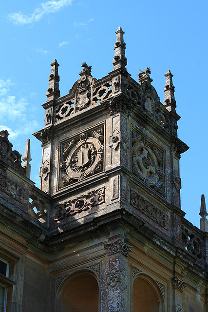 Highclere Castle turret